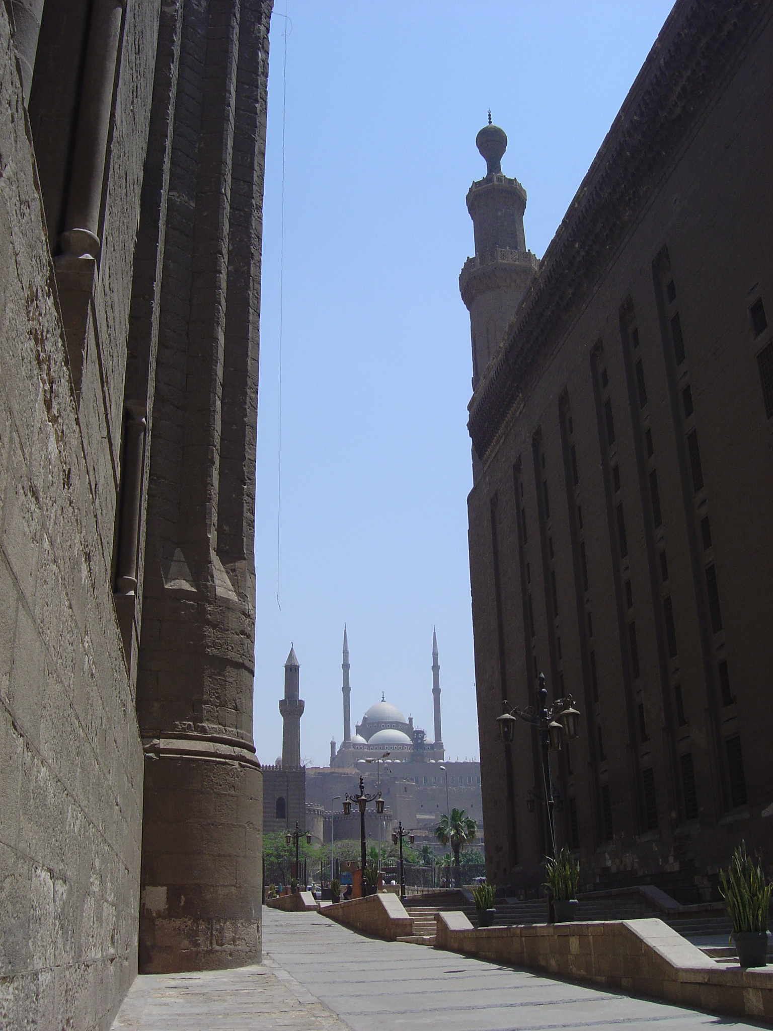 Mosques of Cairo, Egypt.